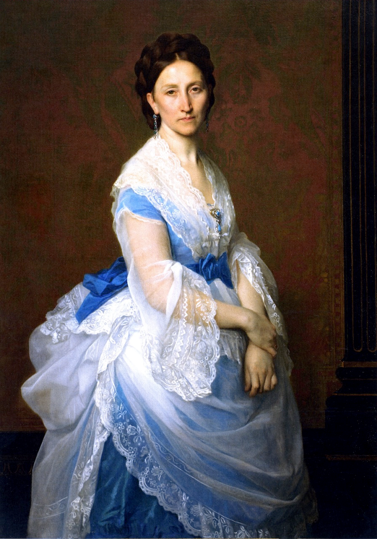 Baronness Paul von Derwies